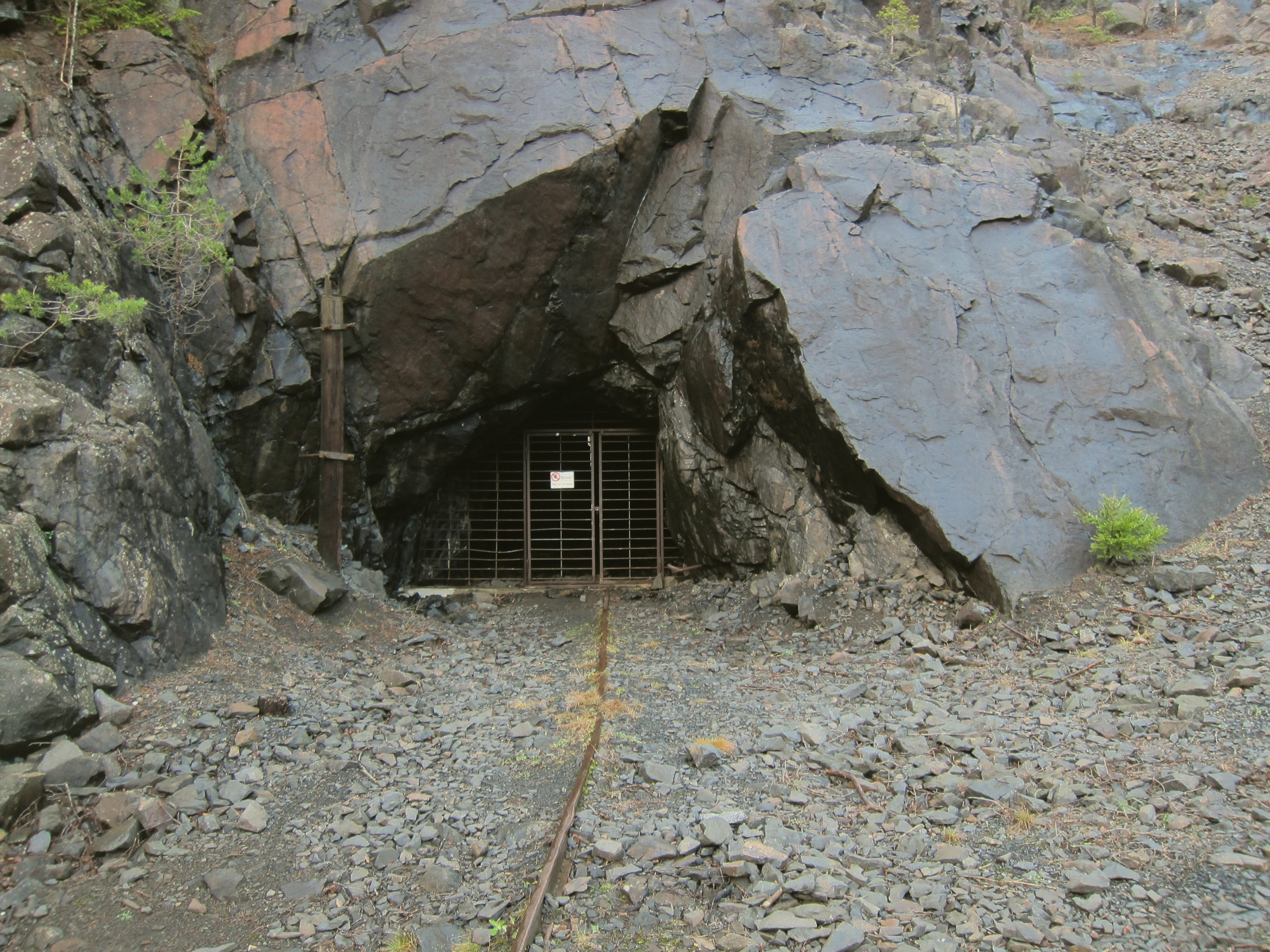 Tabergsgruvan. Entrance to the mine.